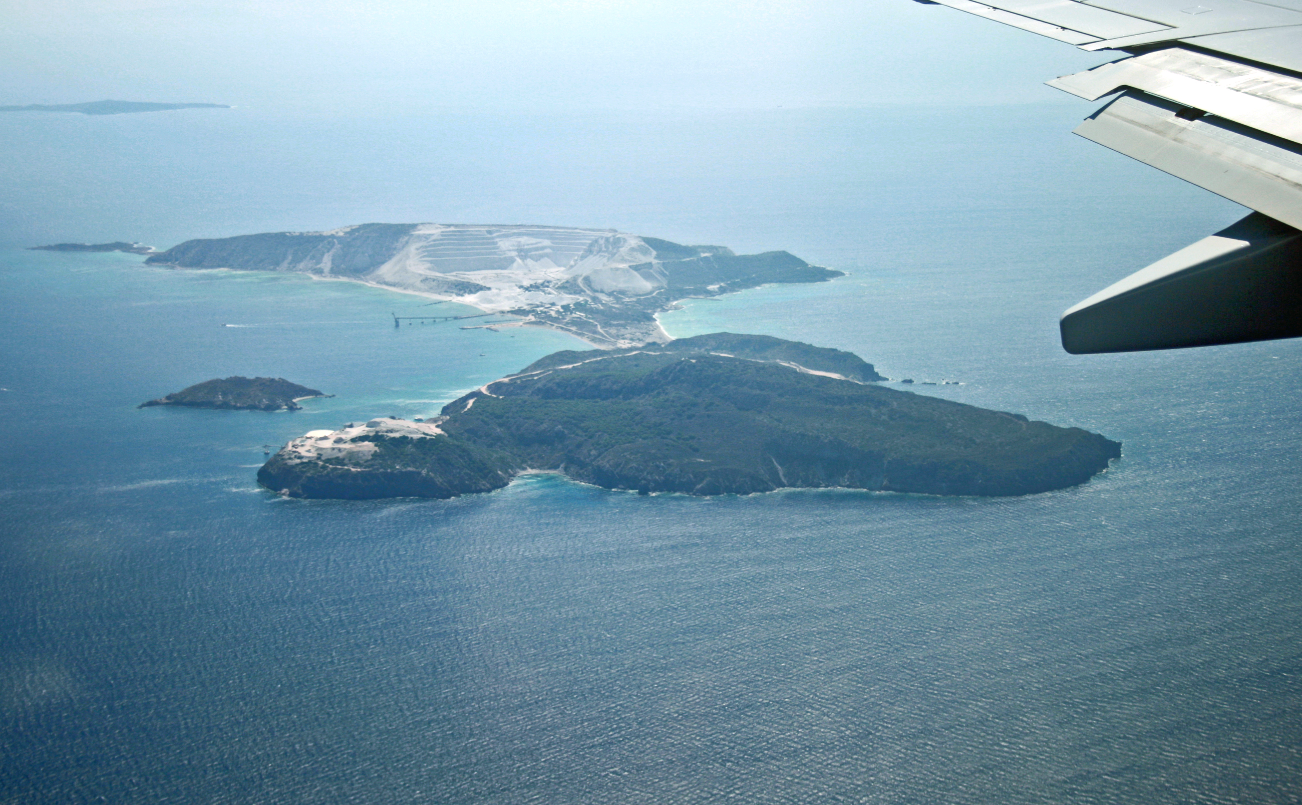 Air view on Greece island Gyali with pumice mine near of near of Nisyros and Kos islands